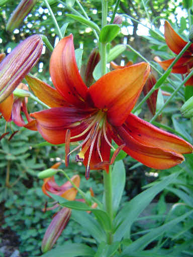 Lilium Hybrid 'Zauberin' - asian hybrid